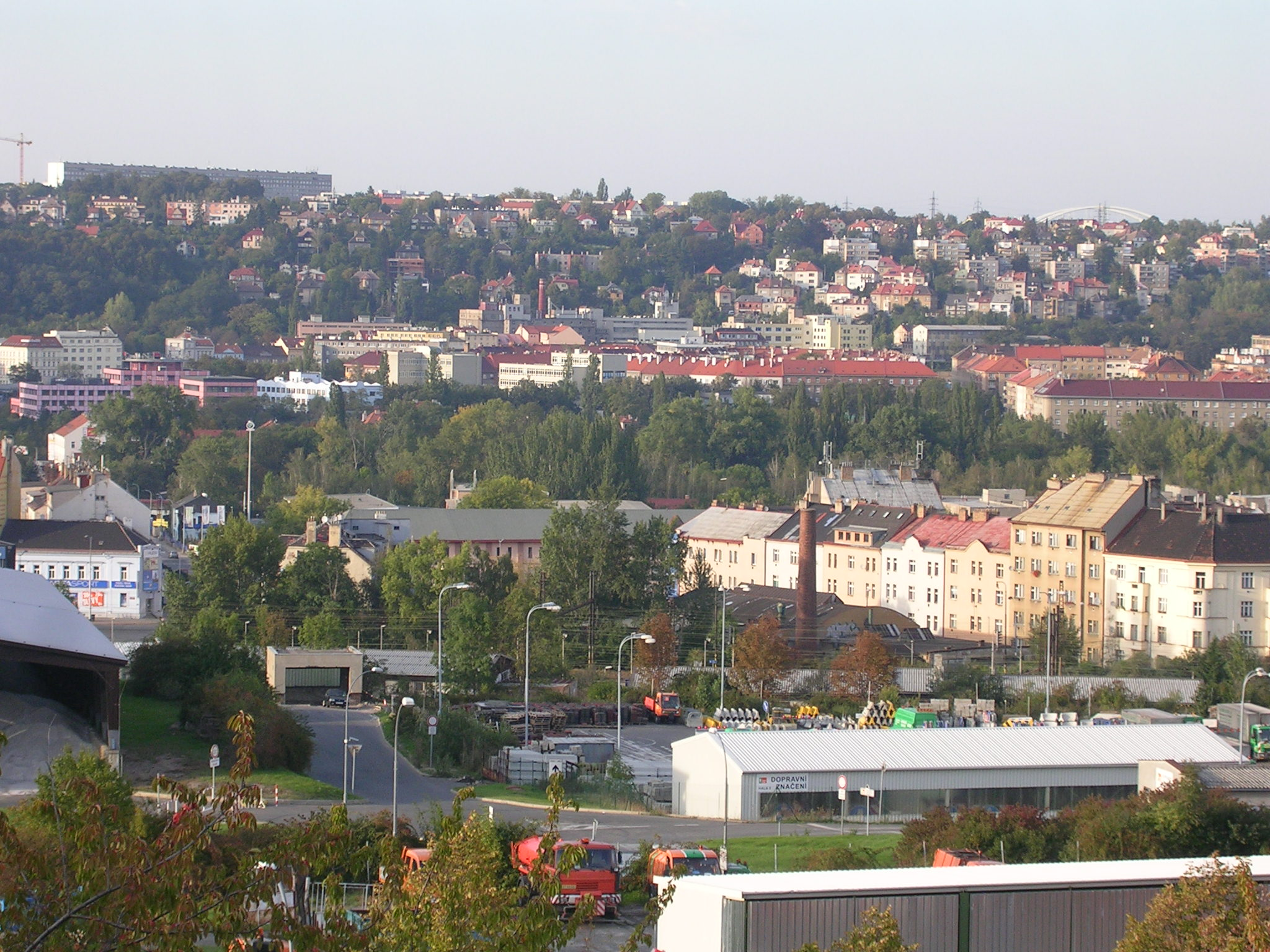 Prague-Vysočany, Czech Republic. - OpenStreetMap (Info)